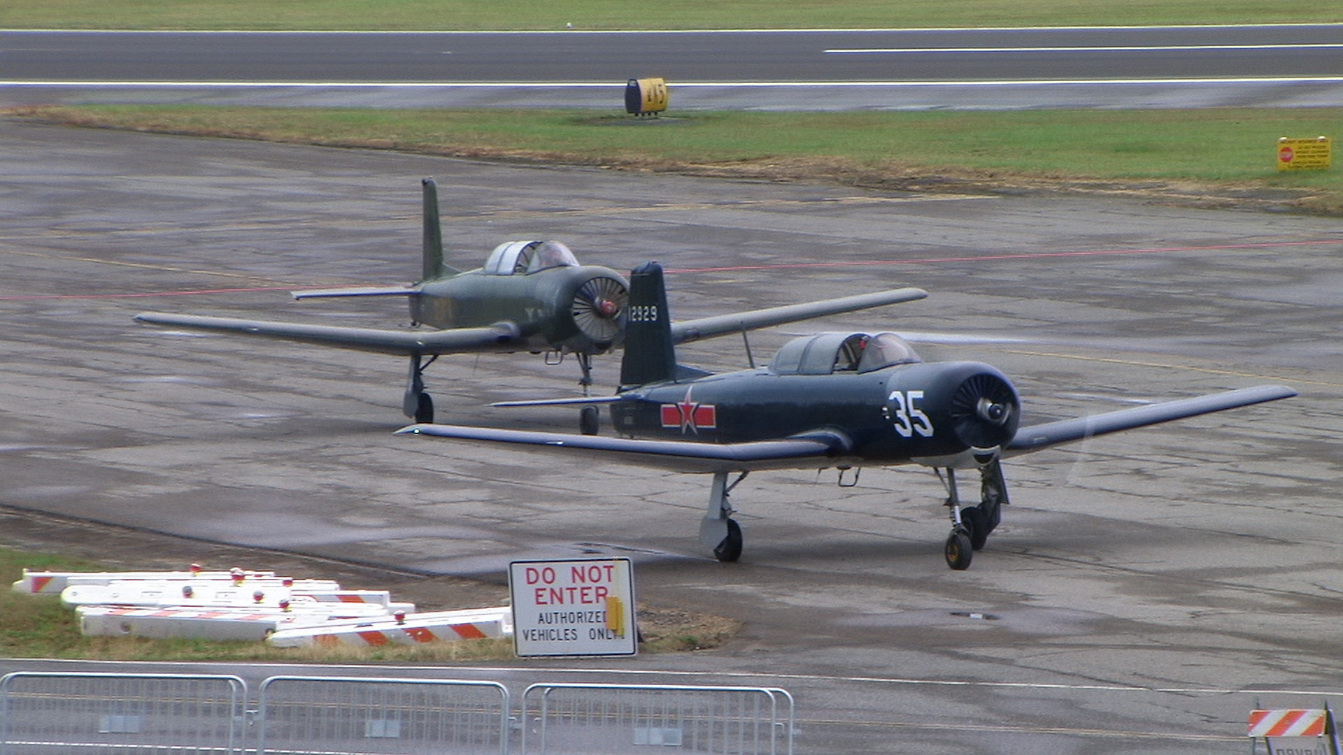 Nanchang CJ-6 at Paine Field